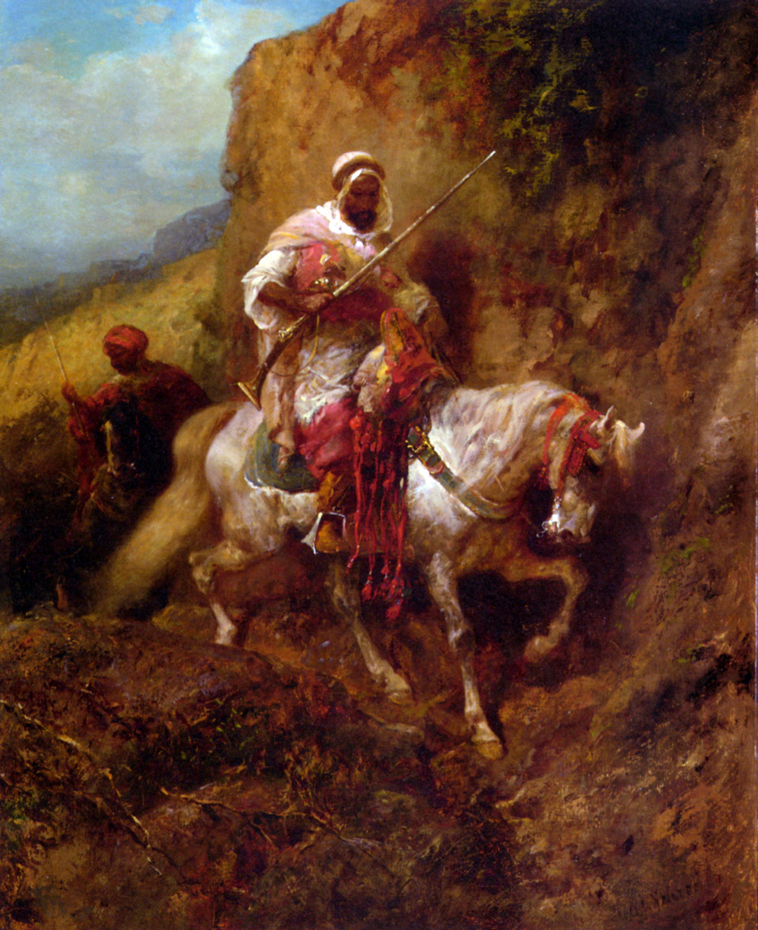 The Warrier